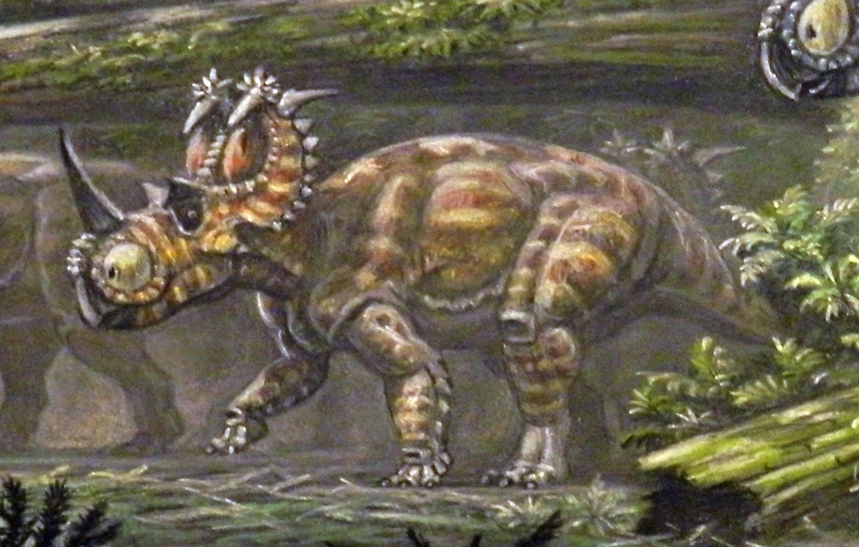 Coronosaurus and Albertaceratops in environment.